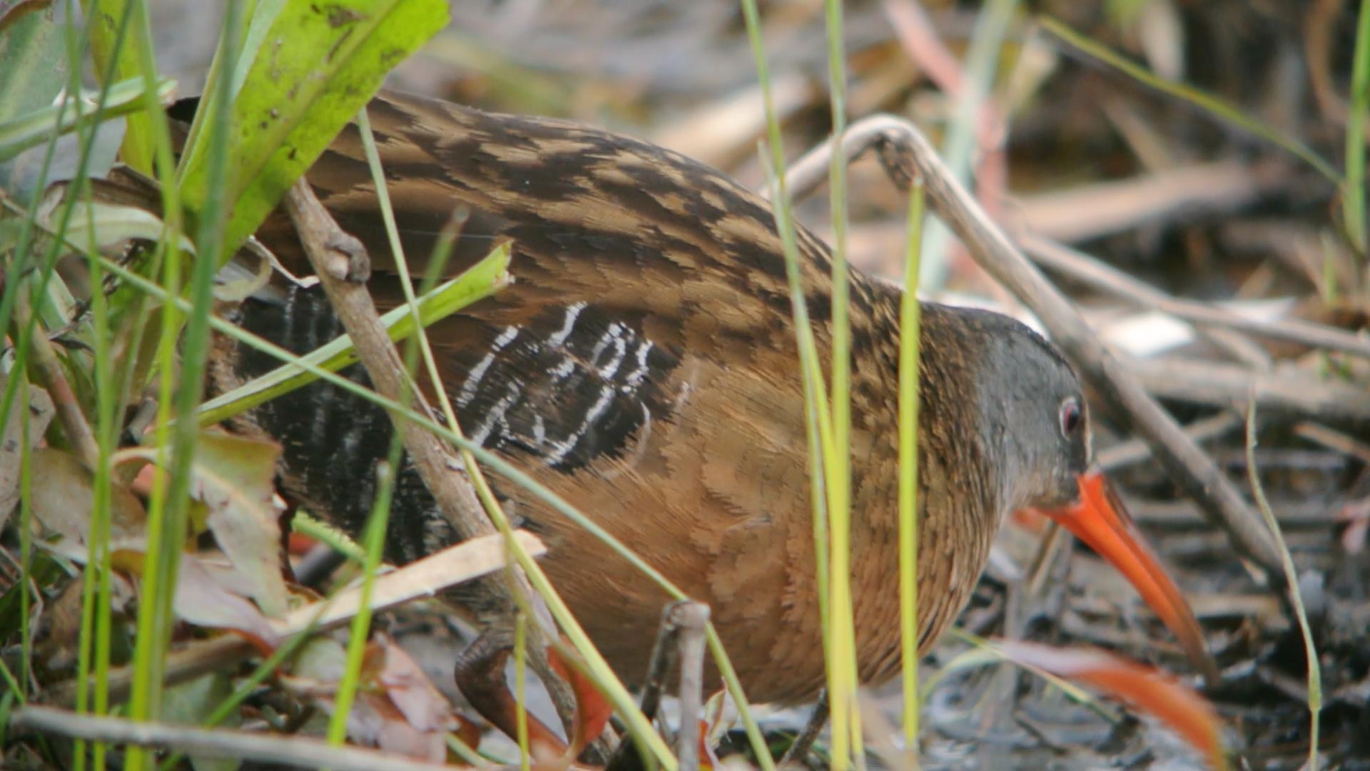 Photo taken from the videostream captured at Riverlands Migratory Bird Sanctuary in Alton Missouri on April 22, 2012